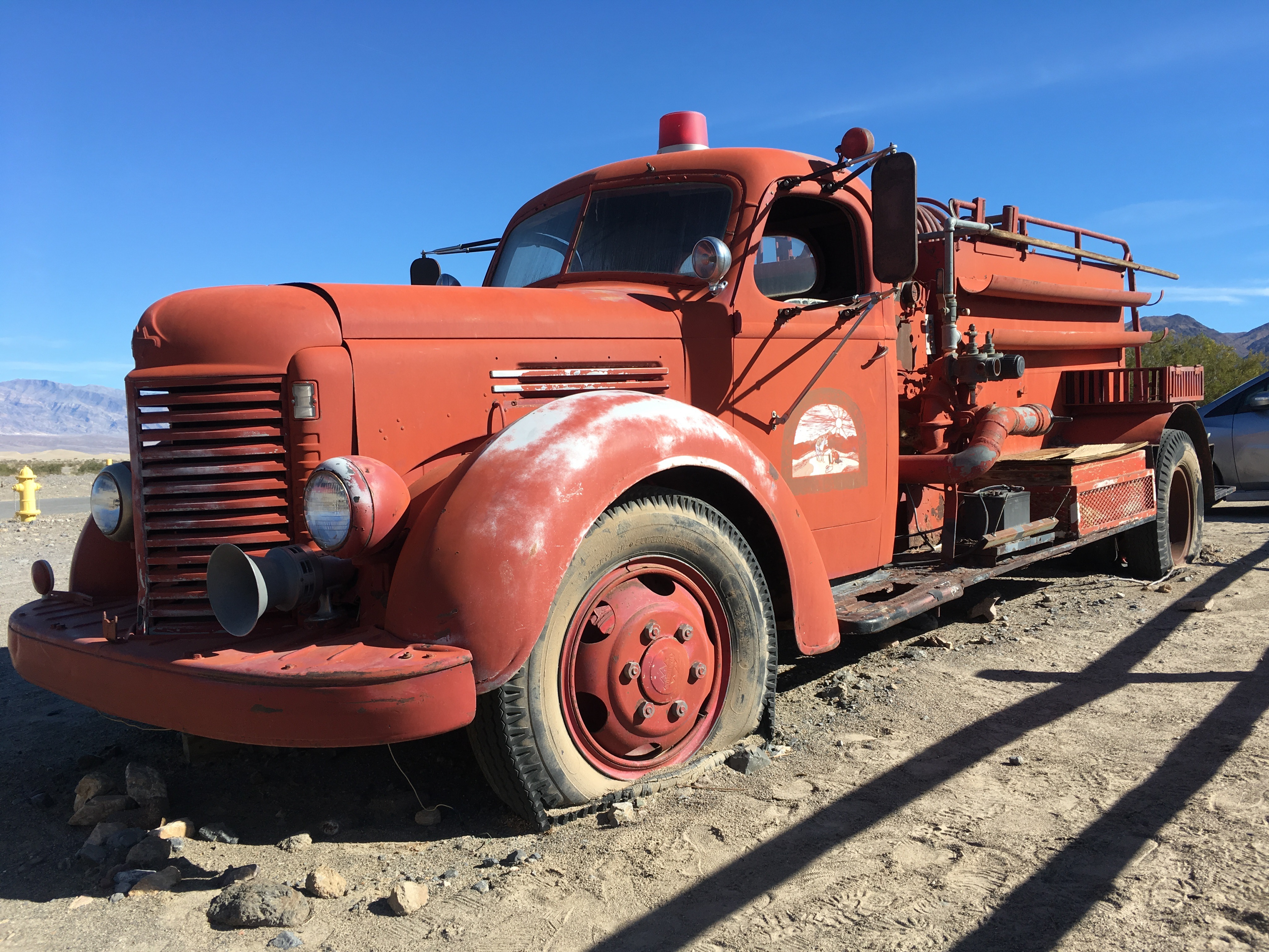 Fire truck in Death Valley